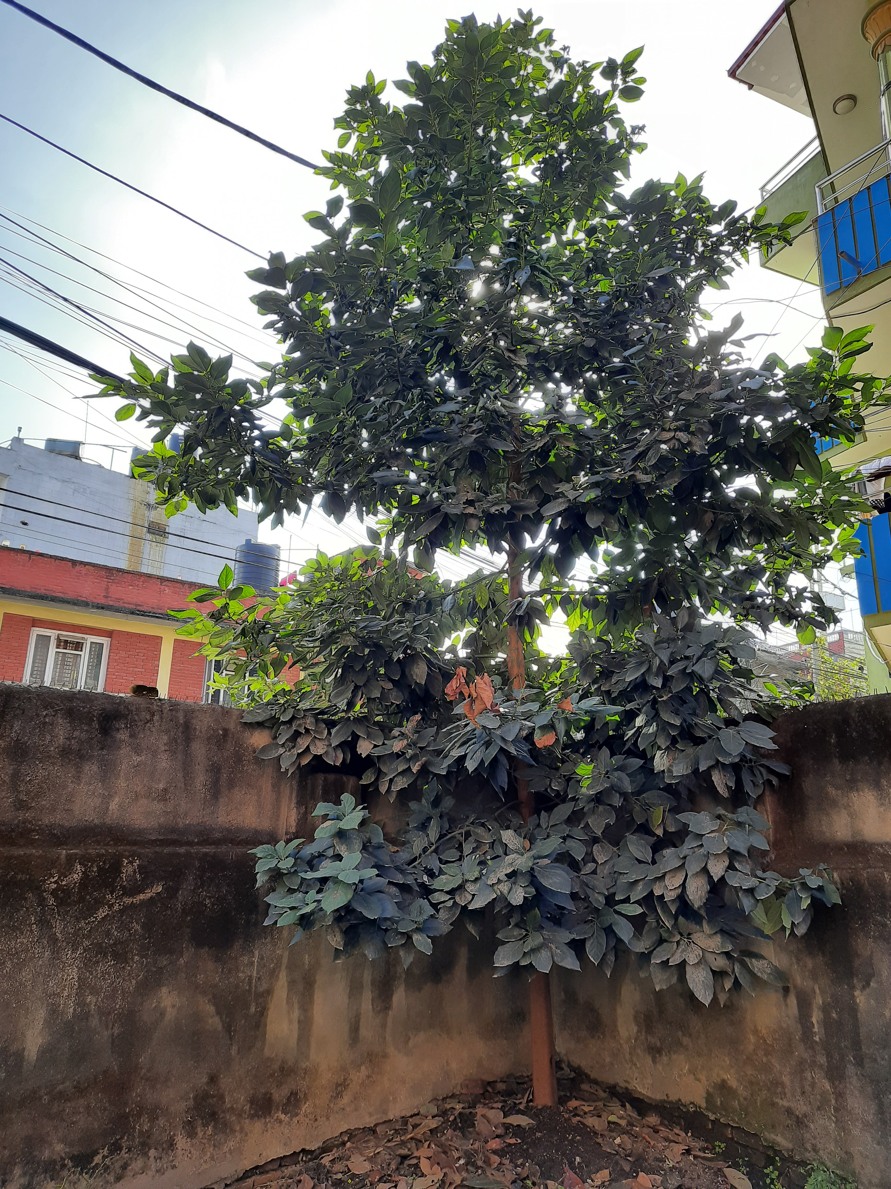 medium sized avocado tree